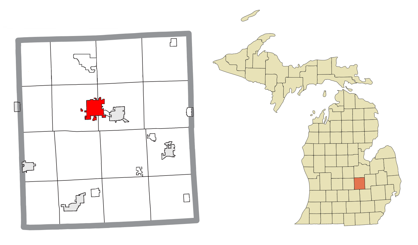 Owosso, MI